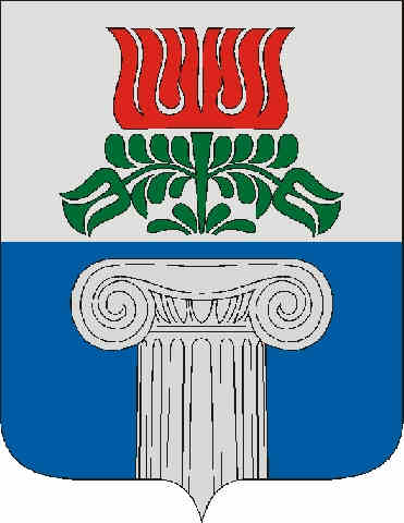 Coat of arms of Beloiannisz, Hungary